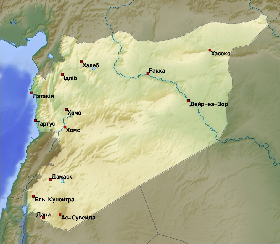 Map of Syria with district capitals in Ukrainian. Mercator projection.